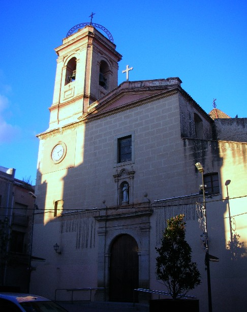 Main Church at Roquetes, a town close to Tortosa